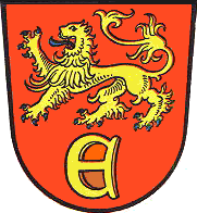 Coat of Arms of Eschershausen